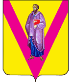 Coat of arms of Pavlovskaya Raion, Krasnodar Krai, Russia